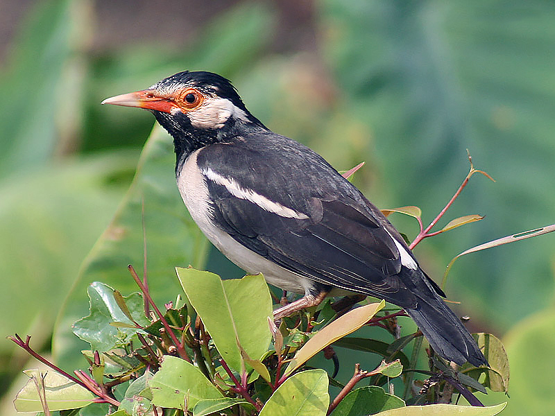 Asian Pied Starling Sturnus contra in Kolkata, West Bengal, India.